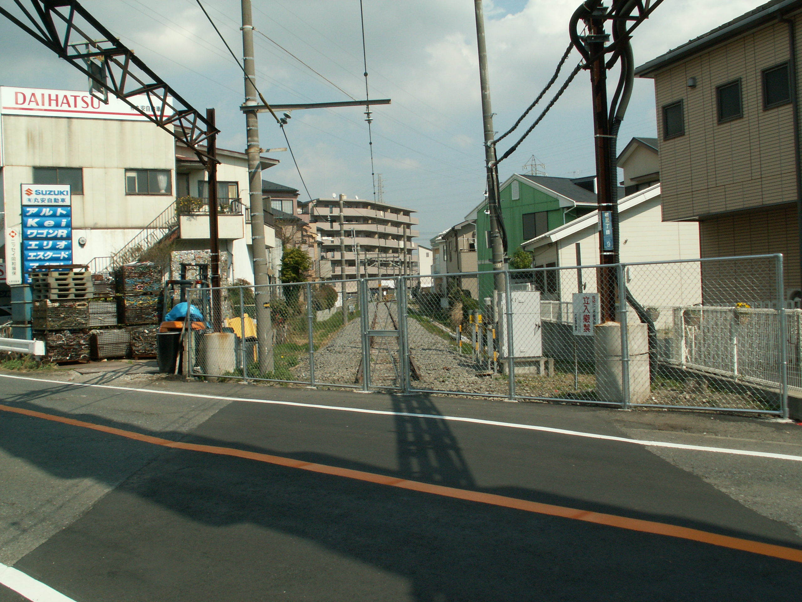 Abandoned feeder track to the former Ofuna Factory